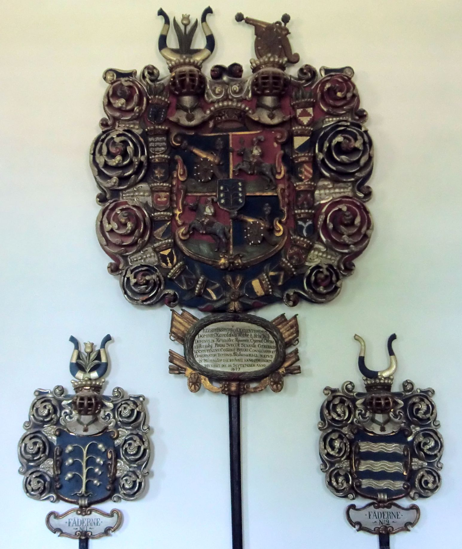 Main coat of arms beloning to the sedish 17th-century general Harald Stake, Hönsäter chapel, Kinnekulle, Sweden